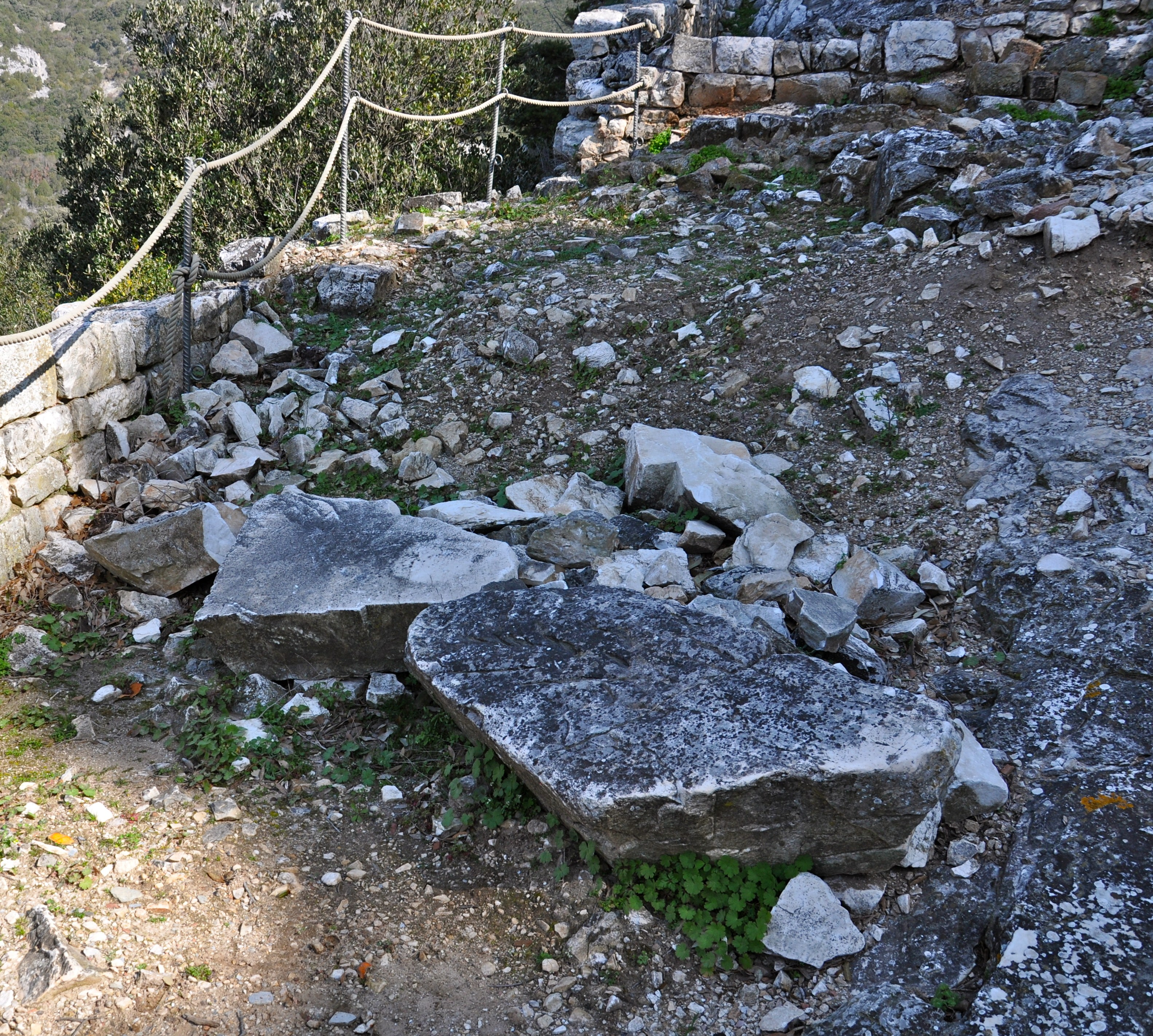 Area of iron production in Rocca San Silvestro, Tuscany